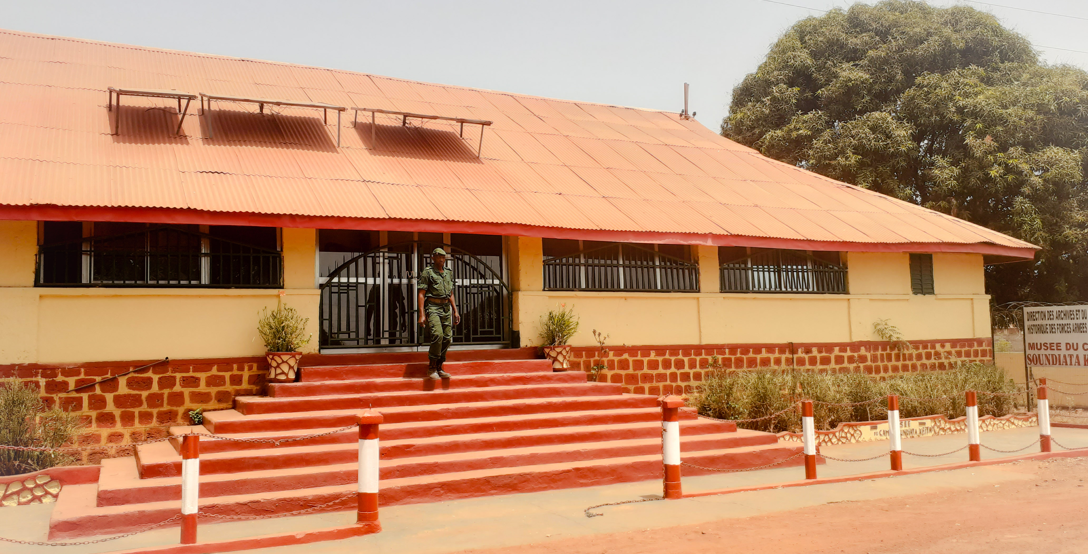 Facade of the Camp Soundiata Keita Museum in Kankan